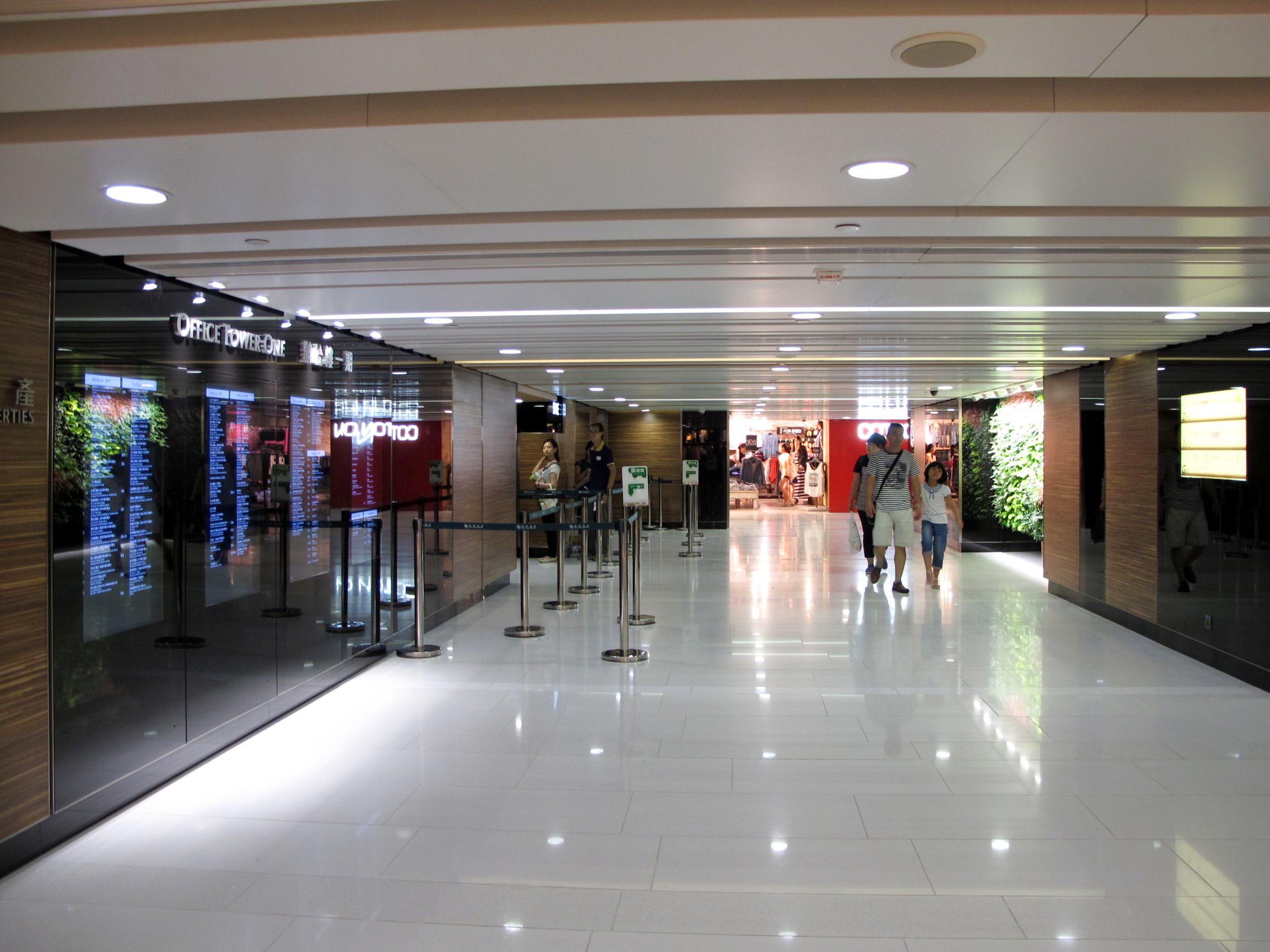 Grand Plaza Office lobby